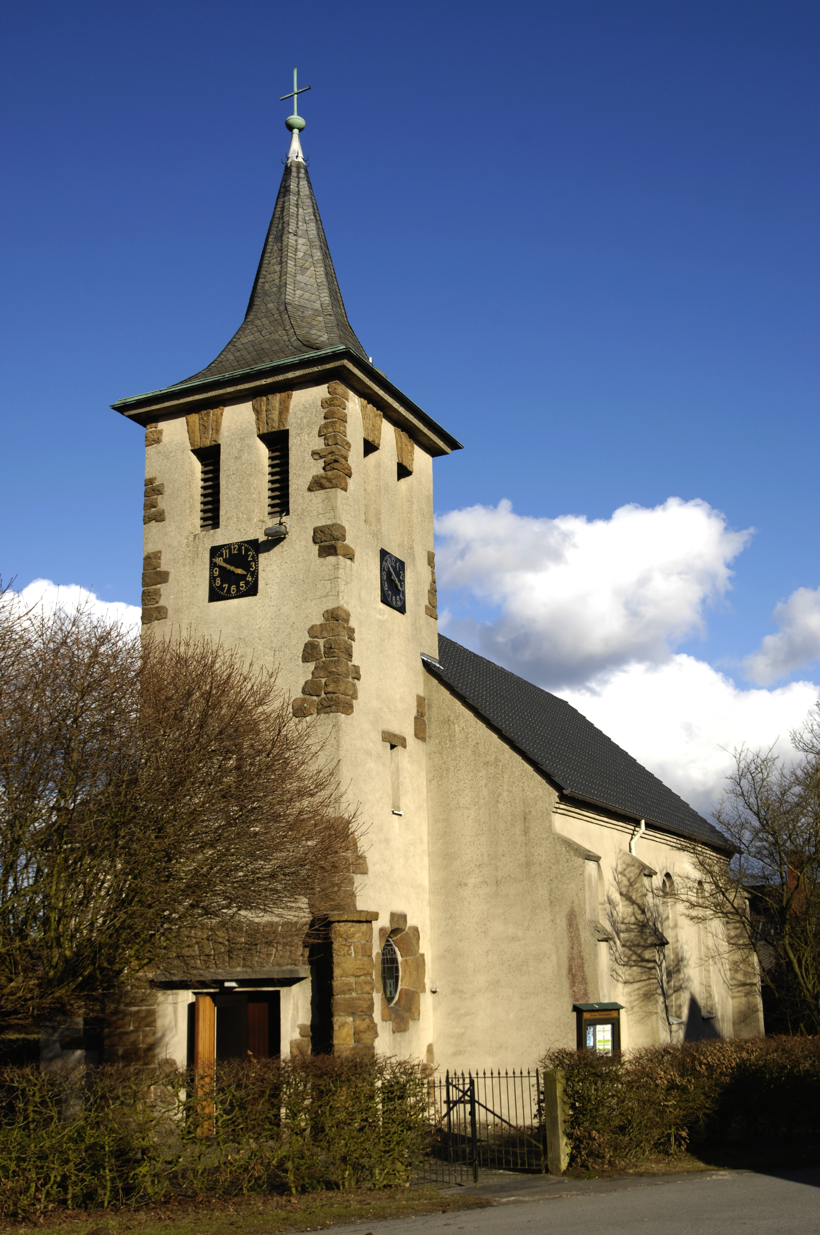 This is the photograph of an architectural monument. It is part of the list of cultural monuments of Rödinghausen, no. 8